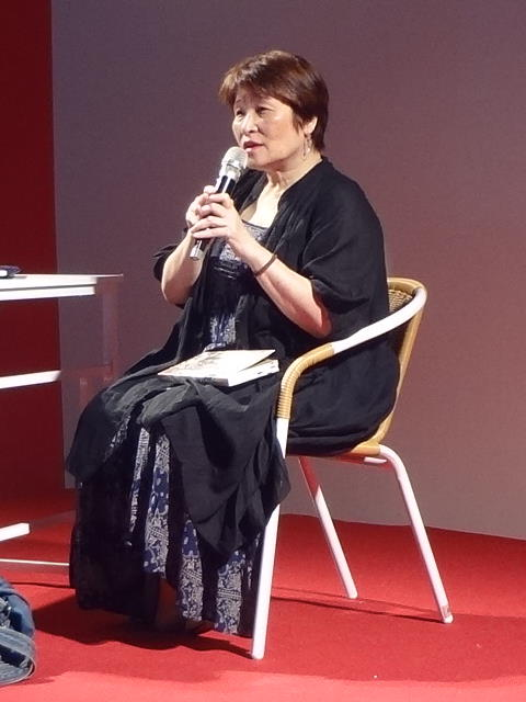 Yuan Ch'iung-ch'iung in 2013 Wordwave Festival.